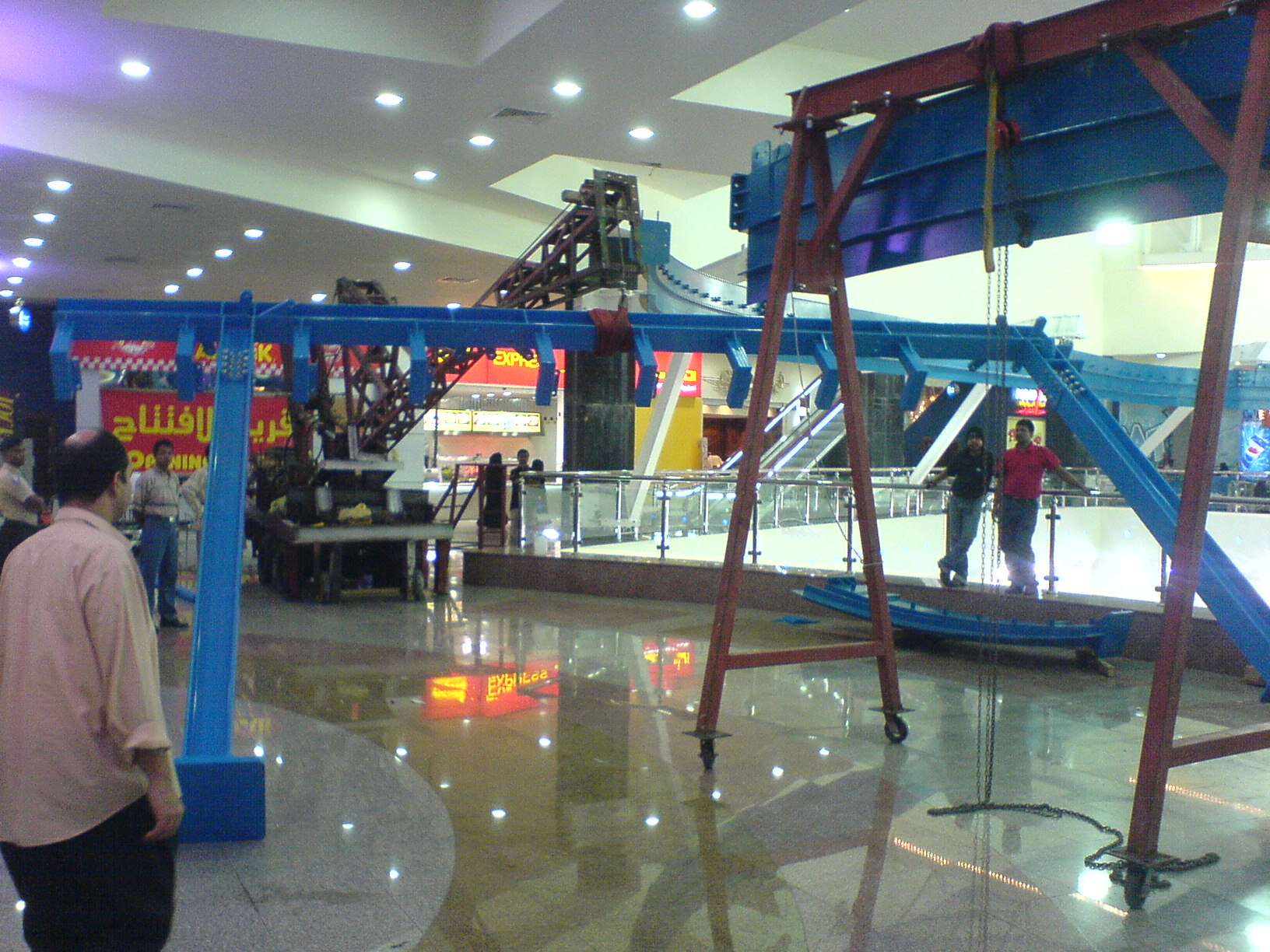 Installation of the monorail inside a three floor shopping Mall